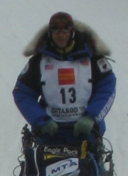 Martin Buser at the 2008 (re-)start of the Iditarod